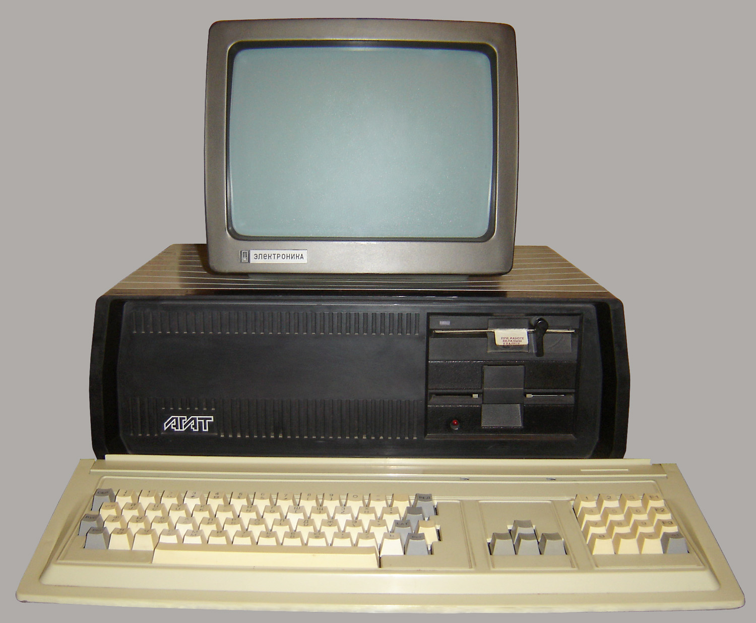 Agat-9 computer with b/w monitor, 840 K disk & keyboard MS7004 (ZEMZ)